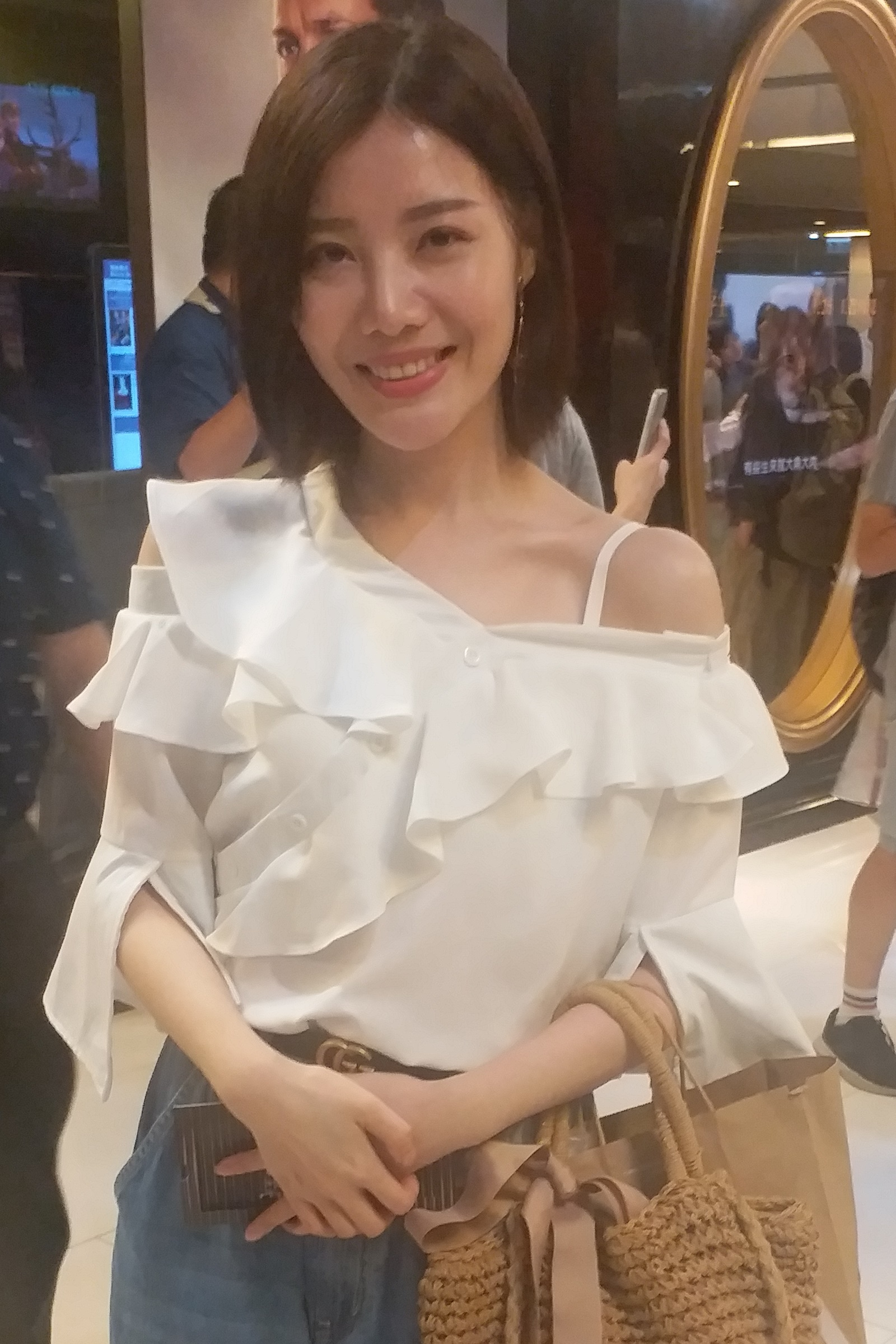 MoMo Wu